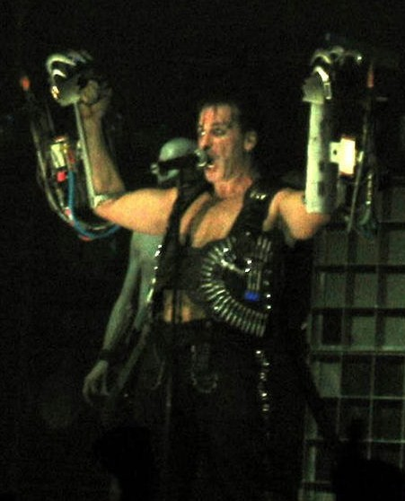 Till Lindemann, singer of German band Rammstein